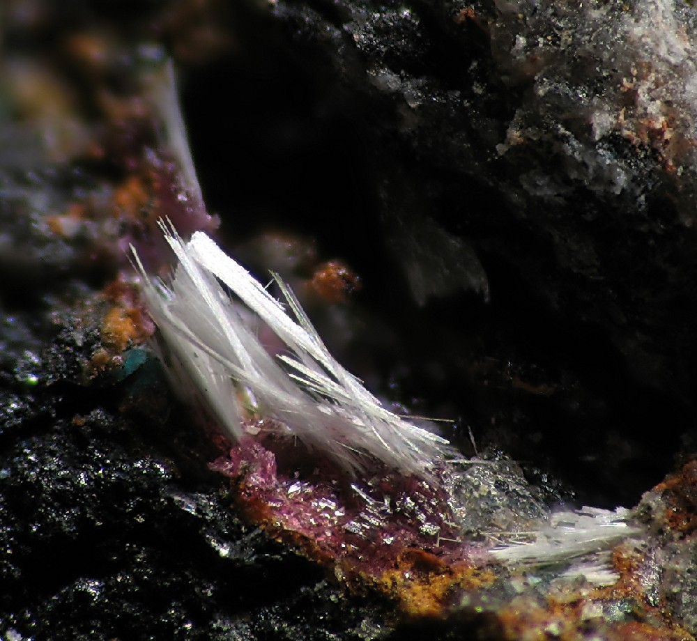 Olsacherite Locality: El Dragón mine, Antonio Quijarro Province, Potosí Department, Bolivia (Locality at ) Picture width 2 mm. Collection and photograph Christian Rewitzer